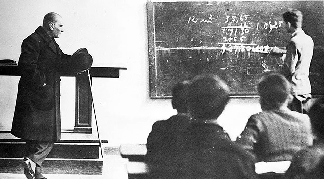 Mustafa Kemal (Atatürk) visits a mathematics class of Izmir High School for Boys on February 1, 1931.